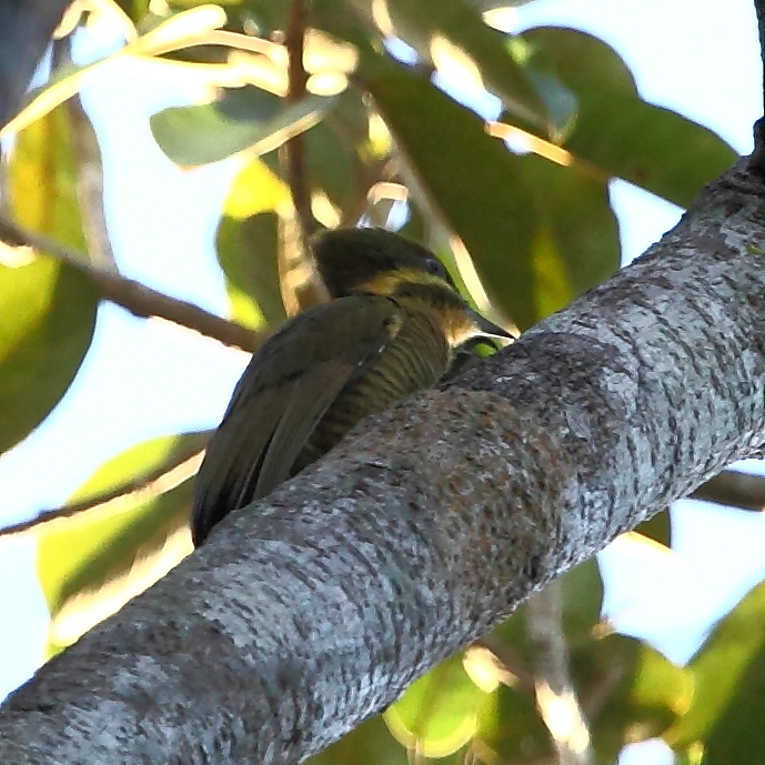 Golden-green Woodpecker at Pantanal, Poconé - MT - Brazil